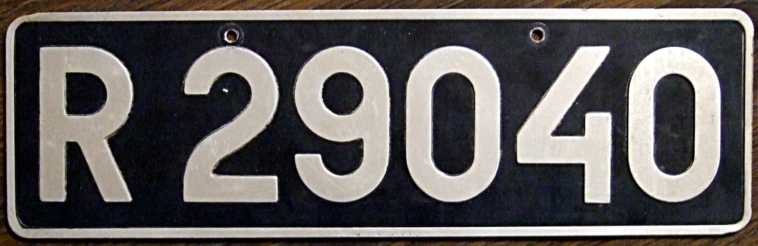 License plate of Iceland before 1989